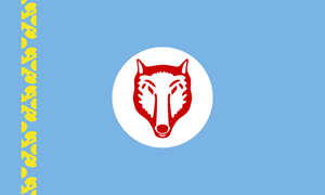 Flag and Coat of Arms of the Gagauz